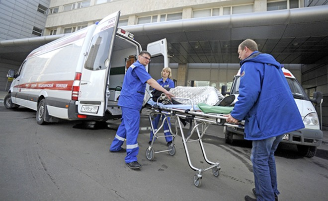 Russian Paramedics